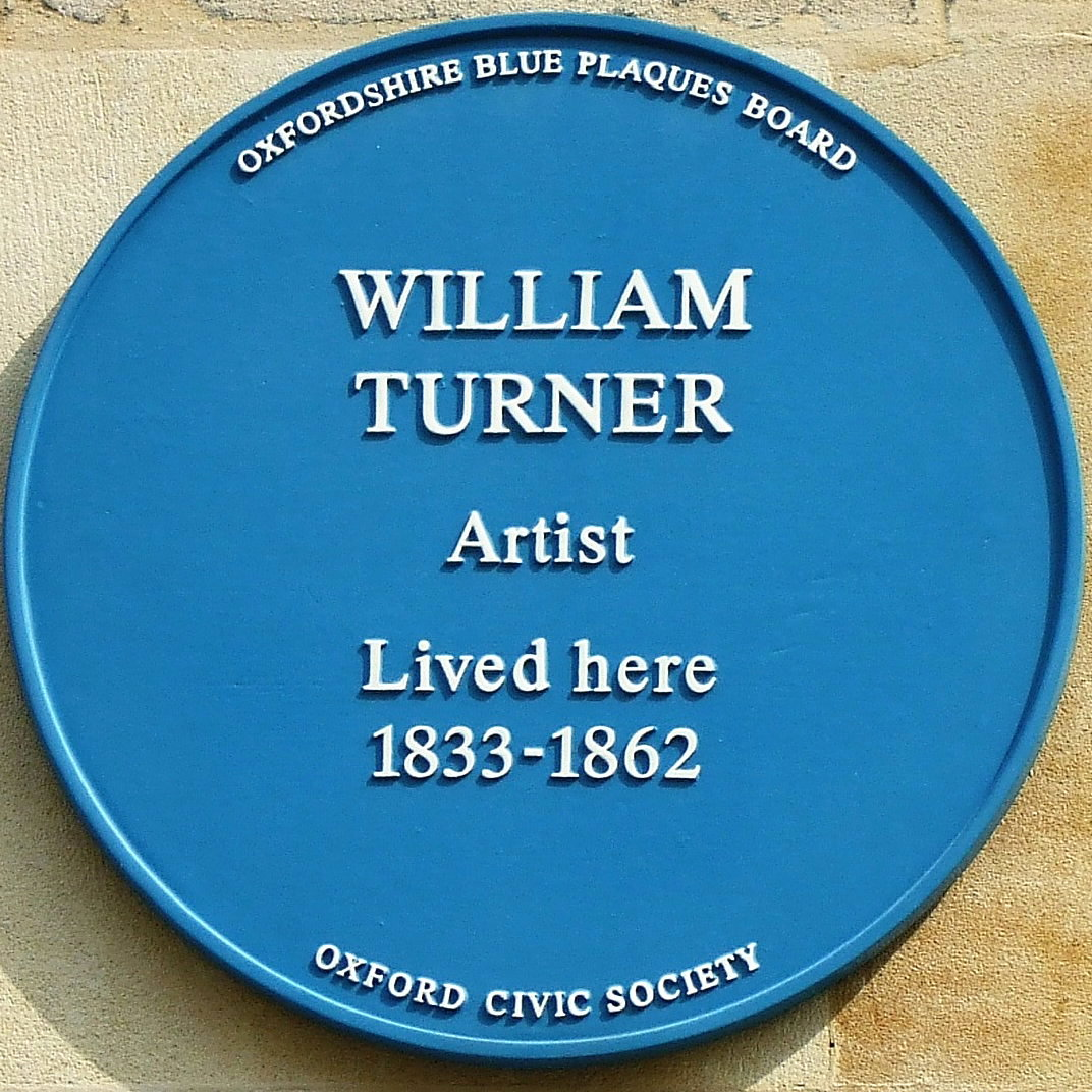 William Turner, artist, lived here, 1833-1862 16 St John Street, Oxford OX1 2LQ Plaque erected 29 October 2002 by the Oxfordshire Blue Plaques Board and Oxford Civic Society